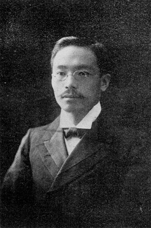 Mr. Kanjirō Higuchi.